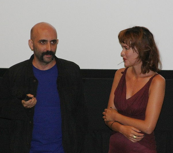 Director Gaspar Noé and actress Paz de la Huerta during a Q&A session for the film Enter the Void at the 2009 Toronto International Film Festival.